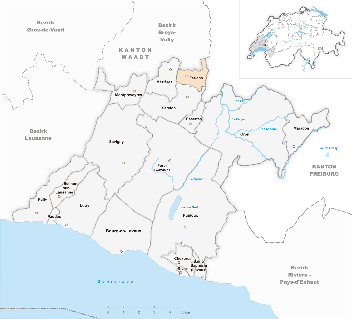 Municipality Ferlens